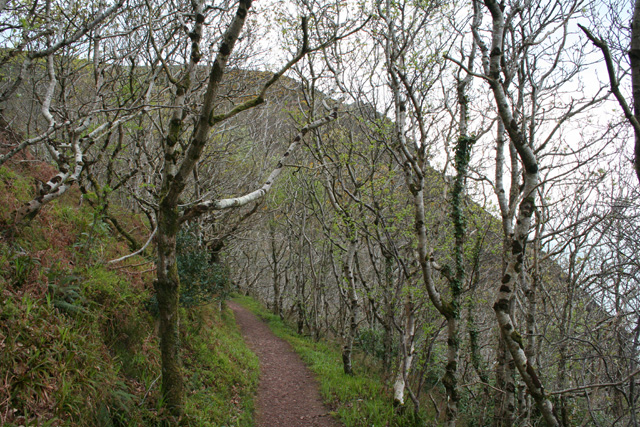 Martinhoe: West Woodybay Wood. Looking west-north-west on the lower coastal path from Woody Bay to The Hunters Inn